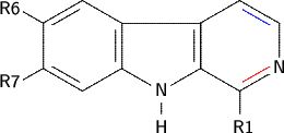 PPCHTeX source: \startchemical[size=big] \chemical[SIX,B,EB135,R45,RZ45][\sf R7,\sf R6] \chemical[SIX,MOV1,S6,B1,EB1,+SB2,-SB3,Z3,SR3,RZ3][\sf N,\sf H] \chemical[SIX,MOV1,B3456,+SB1,-SB2,R3,Z2,RZ3][\sf N,\sf R1] \color[rgb]{1,0,0}\chemical[SIX,EB2]\normalcolor \color[rgb]{0,0,1}\chemical[SIX,EB6]\normalcolor \stopchemical